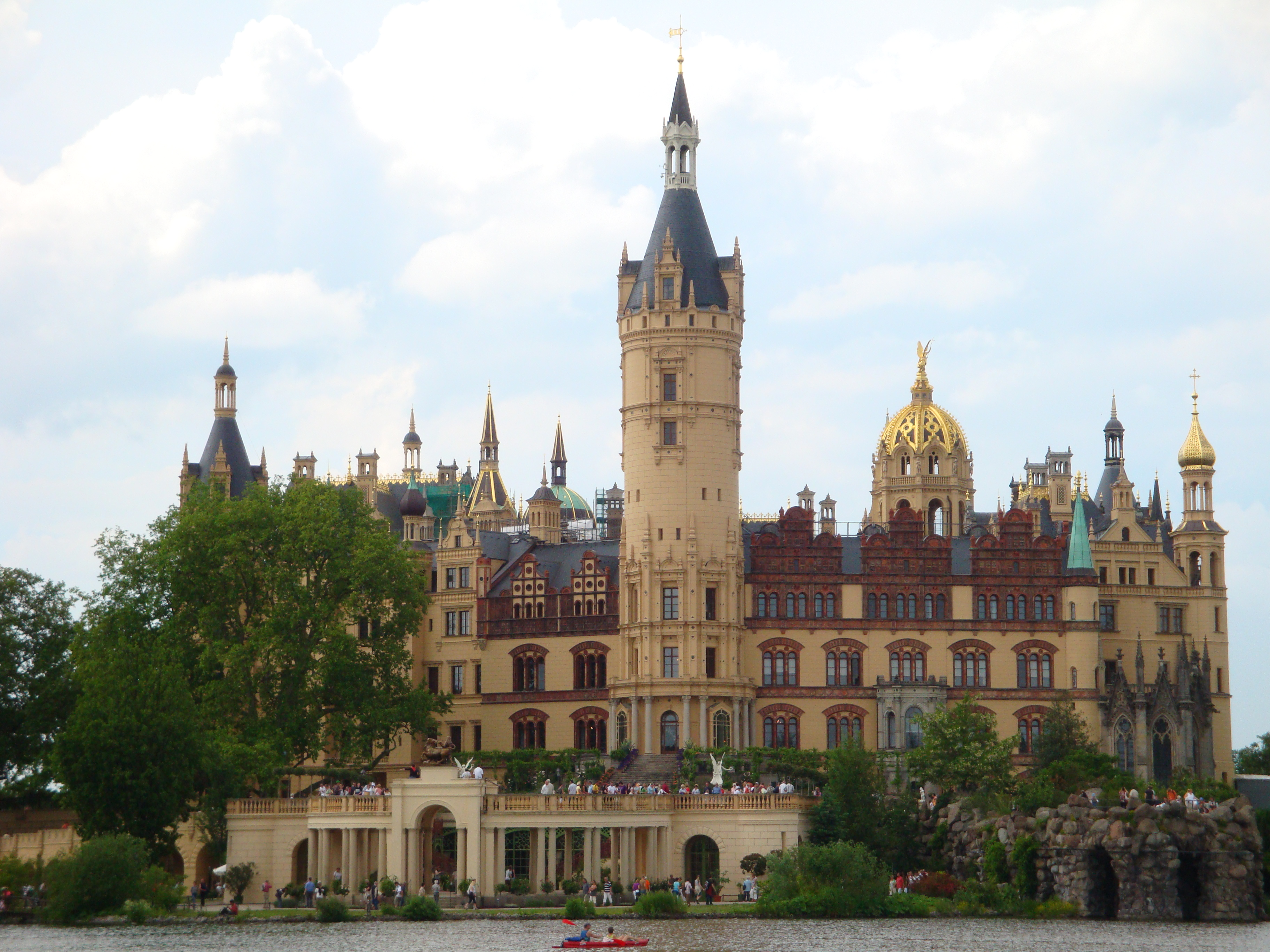 Schwerin Castle seen from the lake